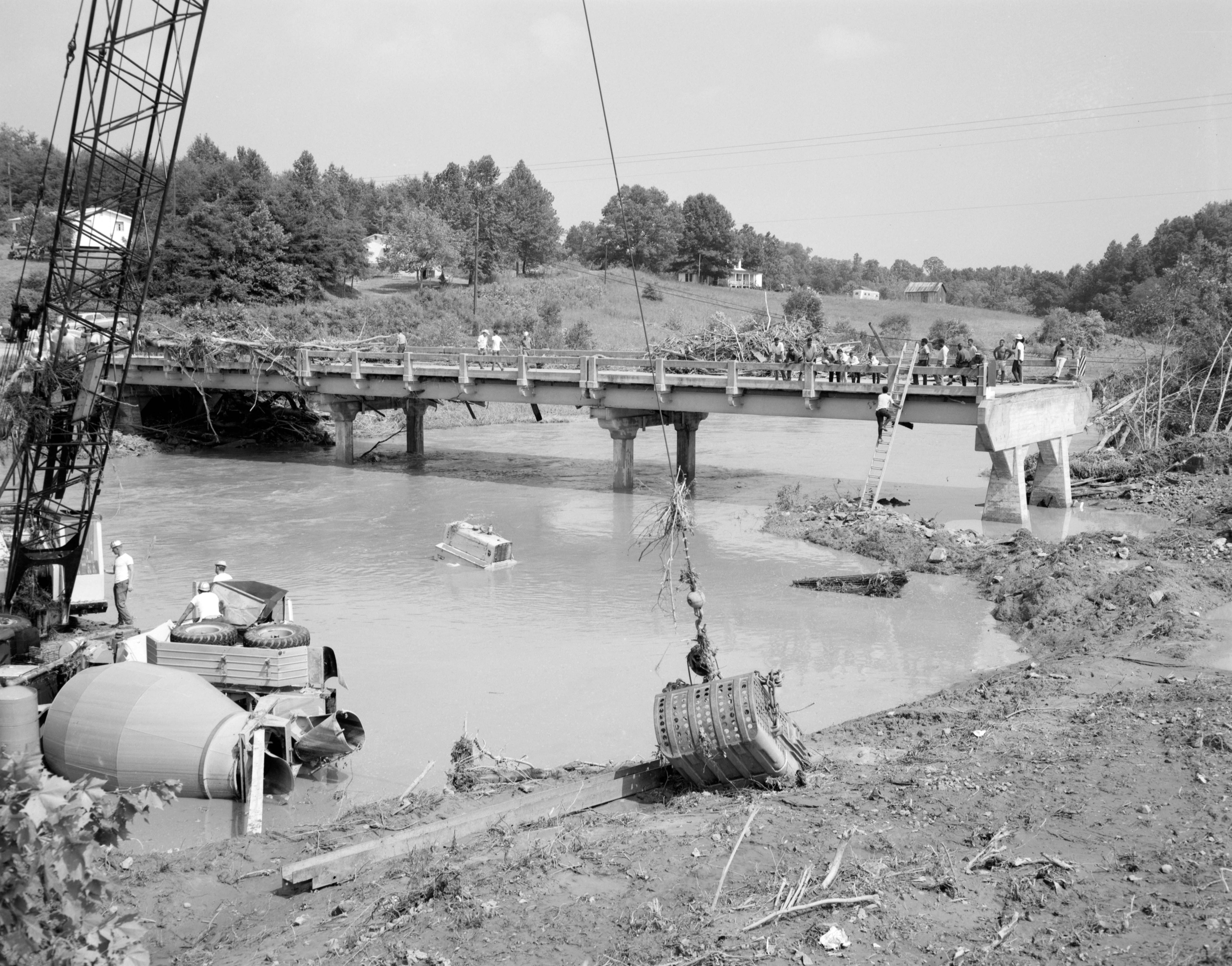 Hurricane Camille flooding washed out the Rt. 29 bridge over the Buffalo River, approximately two miles north of the intersection with Rt. 60 in Amherst County. Photo taken looking north. No. 69-1170, Virginia Governor's Negative Collection, Library of Virginia.